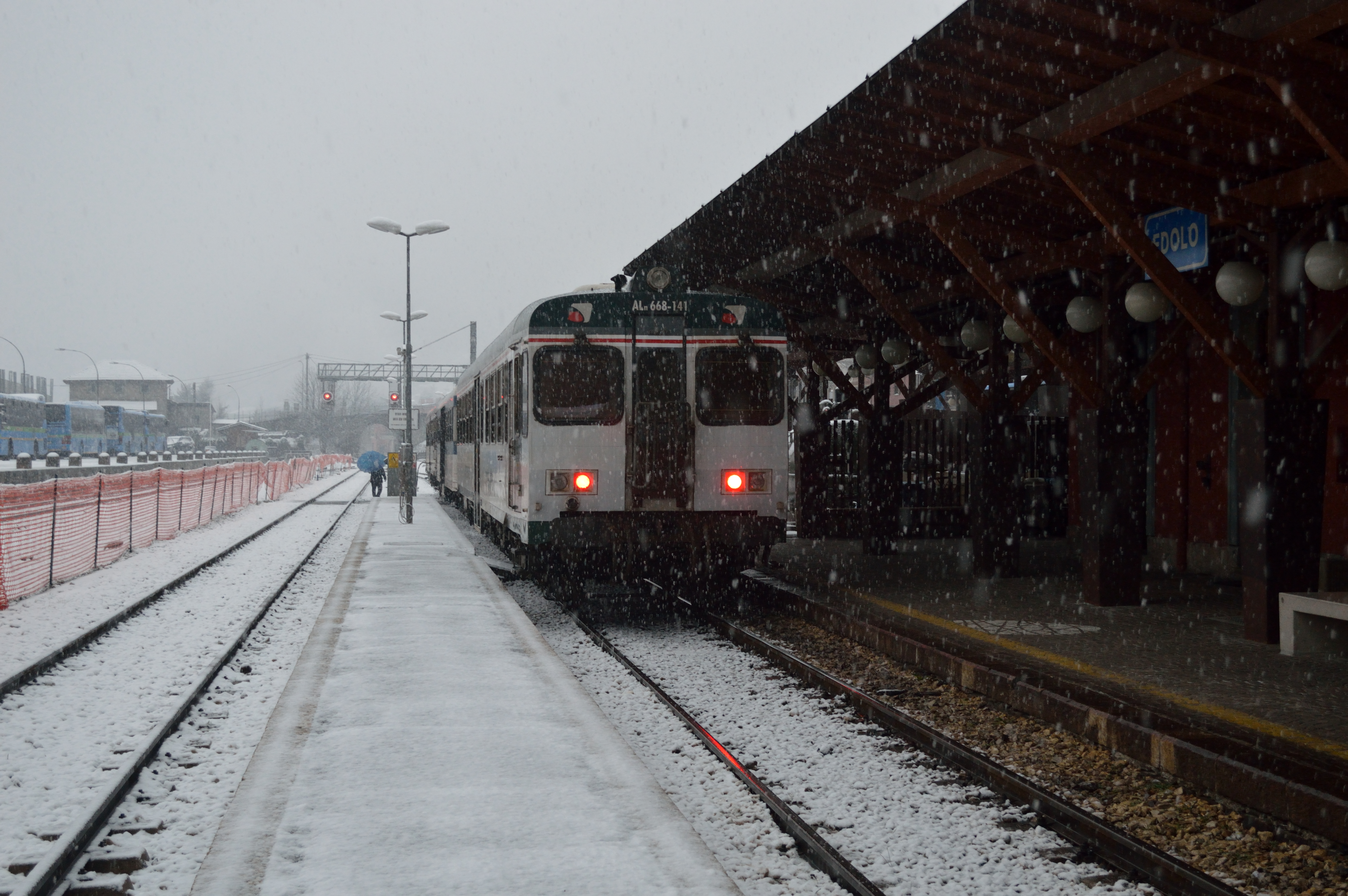 In snowy conditions a 3-car DMU set operated by Trenord is seen at the branch line terminus of Edolo on 21 February 2015. Closest to the camera is ALn668.141 with trailer in the middle and ALn668.144 at the rear. Train R81, 17:54 Edolo to Brescia. Apart from a 2-year stint, this 105km line has always been in private hands being operated for many years by Società Nazionale Ferrovie e Tramvie. Since the reorganisation of railways in the Lombardia region, this now part of Trenord. At the time of this visit, the ALn units seen here were nearly all replaced by newer diesel units - ATR 220 sets built by Pesa in Poland and ATR115 sets built by Stadler in Switzerland.